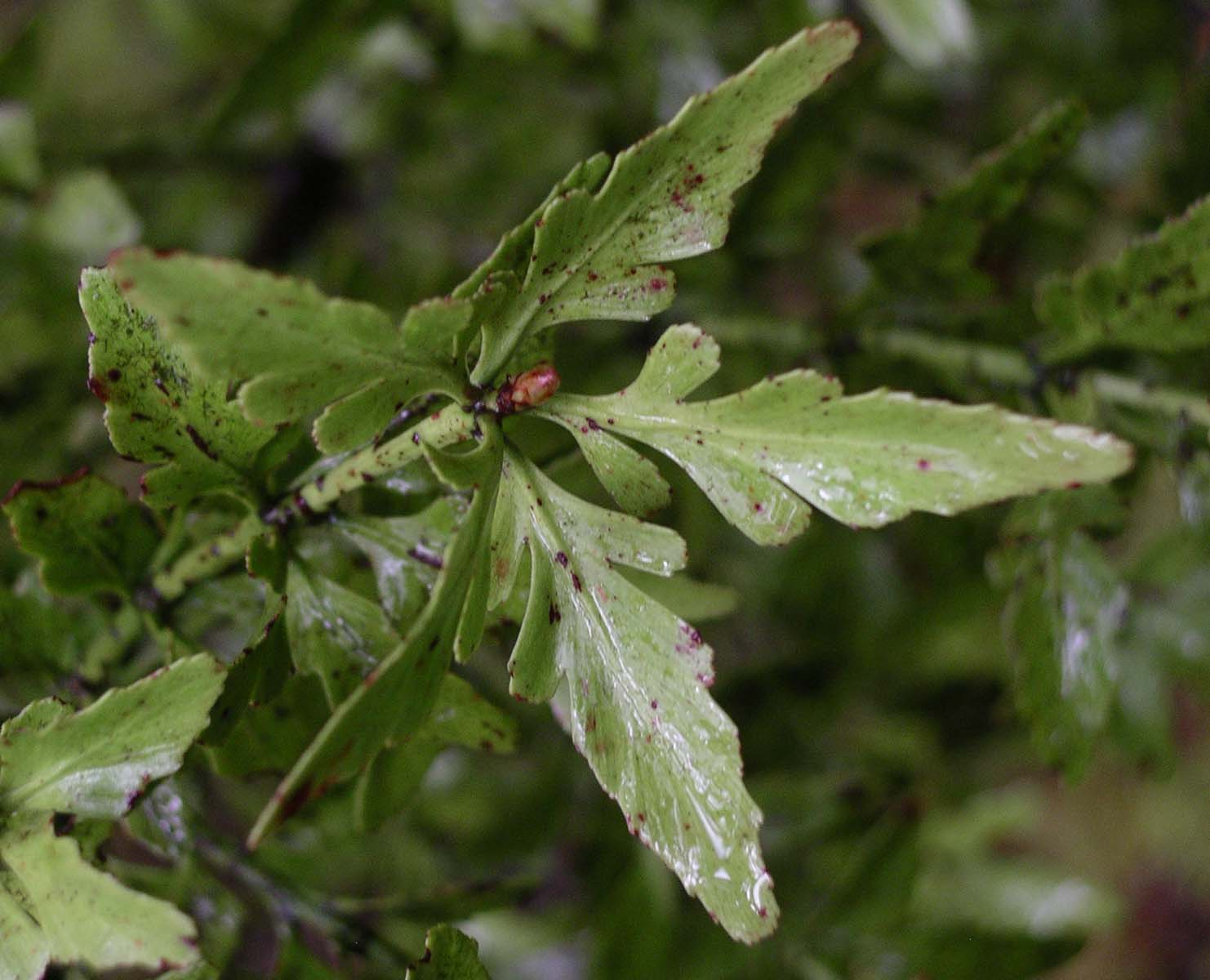 Phylloclades of Phyllocladus alpinus, from native bush at Arthur's Pass, South Island, New Zealand